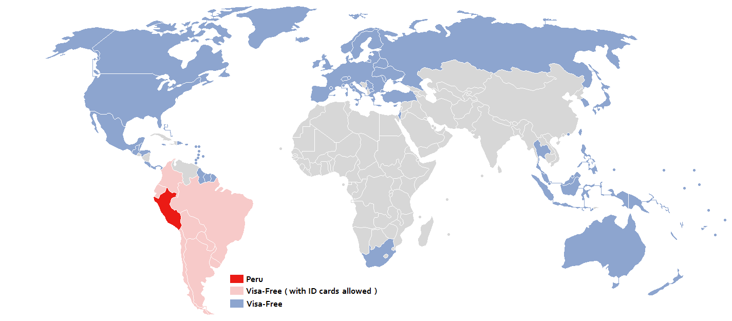 Visa policy of Peru Peru Visa-free (travel with ID cards allowed) Visa-free